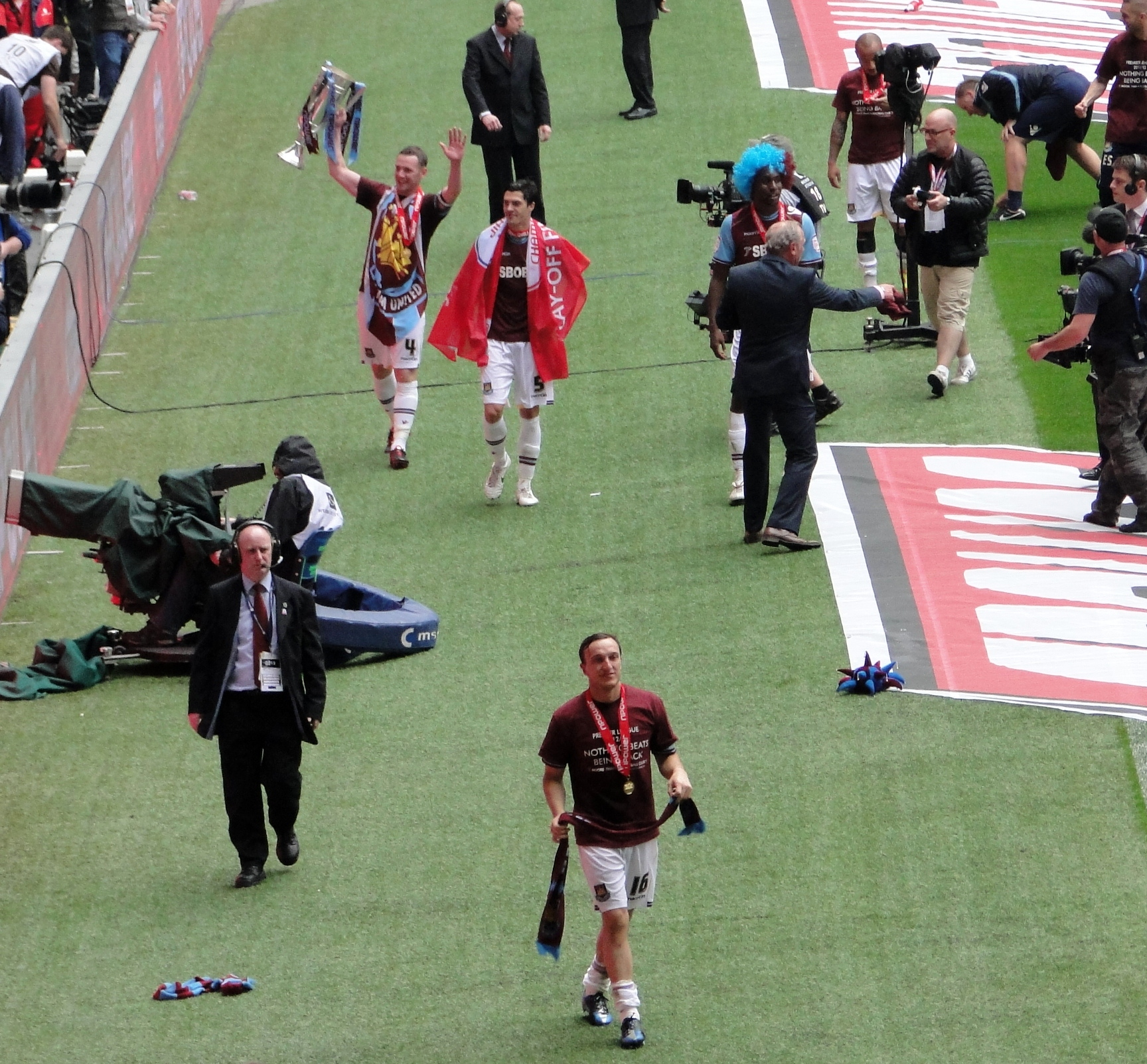 West Ham United players Kevin Nolan (with cup), James Tomkins and Mark Noble (front) celebrate after winning the 2012 Football League Championship play-off final at Wembley, May 2012.